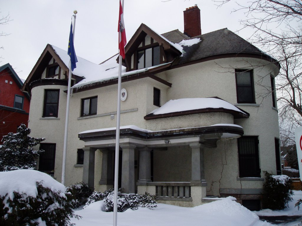 Taken by SimonP in January 2005